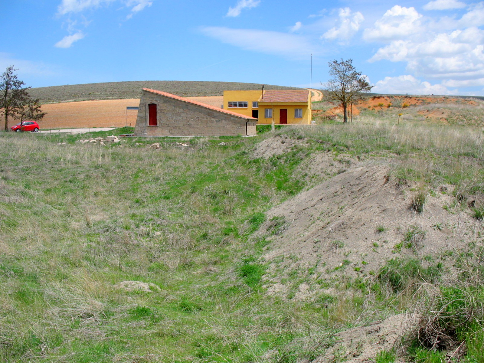 Paleontological (Middle Pleistocene) and archaeological (Lower Palaeolithic) site of Ambrona (Soria, Spain). The trenches of the excavations can be seen in the foreground and behind the in situ museum and the permanent exhibition buildings. Note the color change of the land, from gray (A1 to A6) to more reddish in the upper levels of the series (A7).